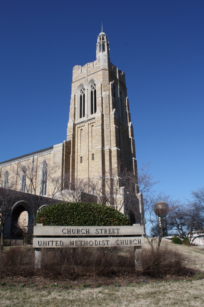 A picture of the exterior of Church Street United Methodist Church in Knoxville, TN.